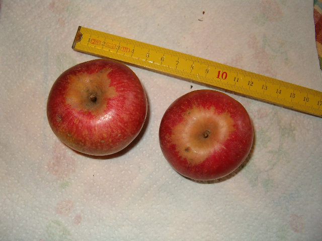 Annurca, a PGI Italian Apple with a meter